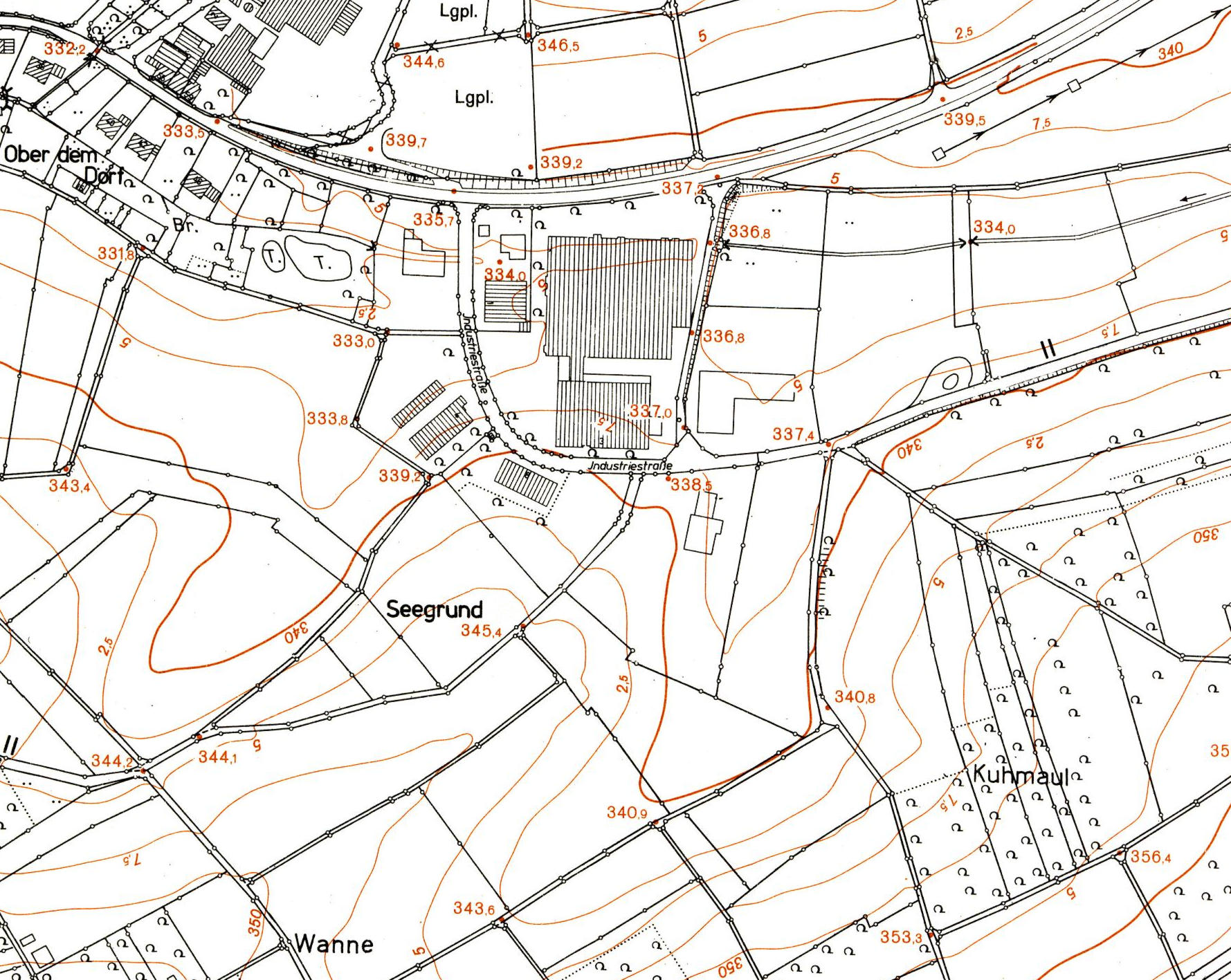 Example of the German Basic Map in Baden-Württemberg, scale 1:5000.